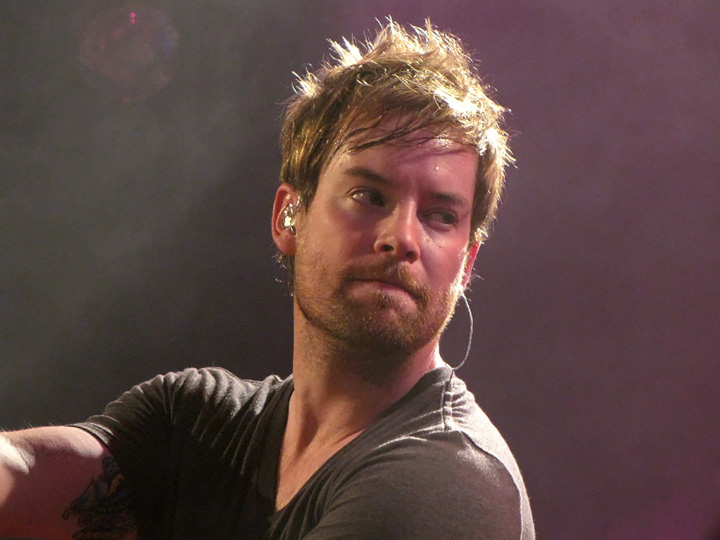 David Cook performing at Toad's Place in New Haven, CT